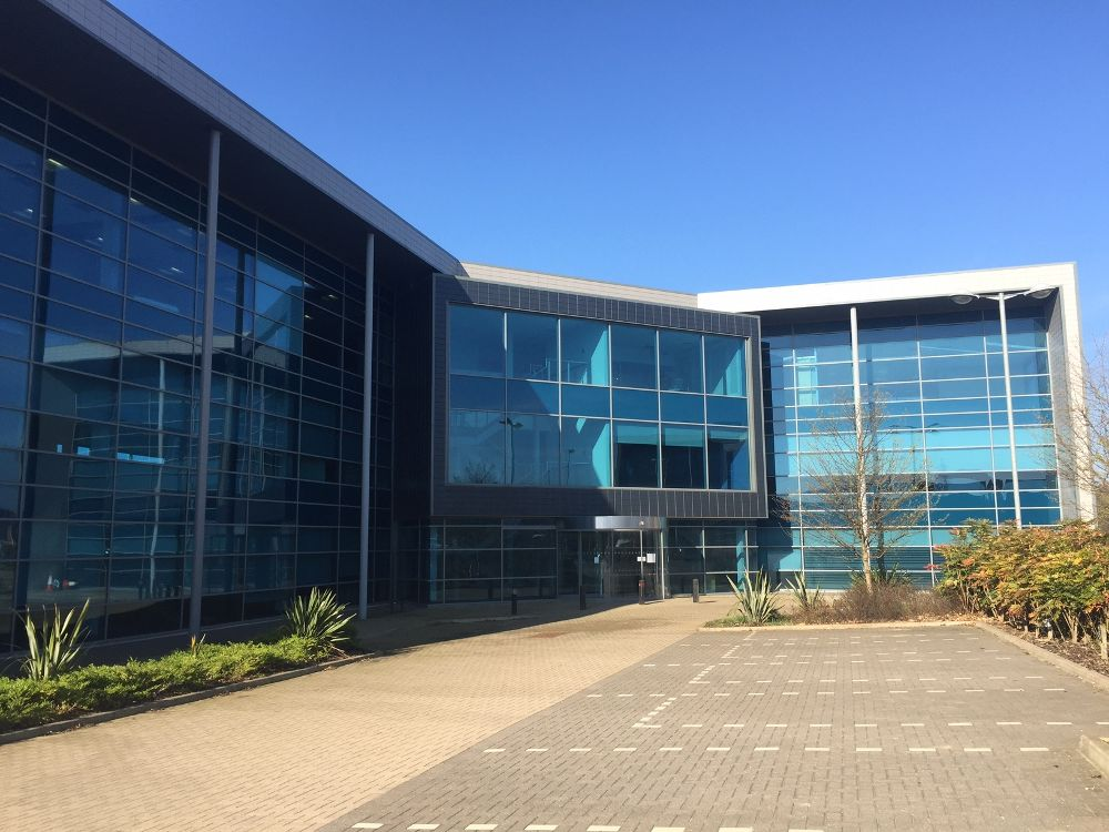 Bede Gaming's Newcastle head office as of June 2015